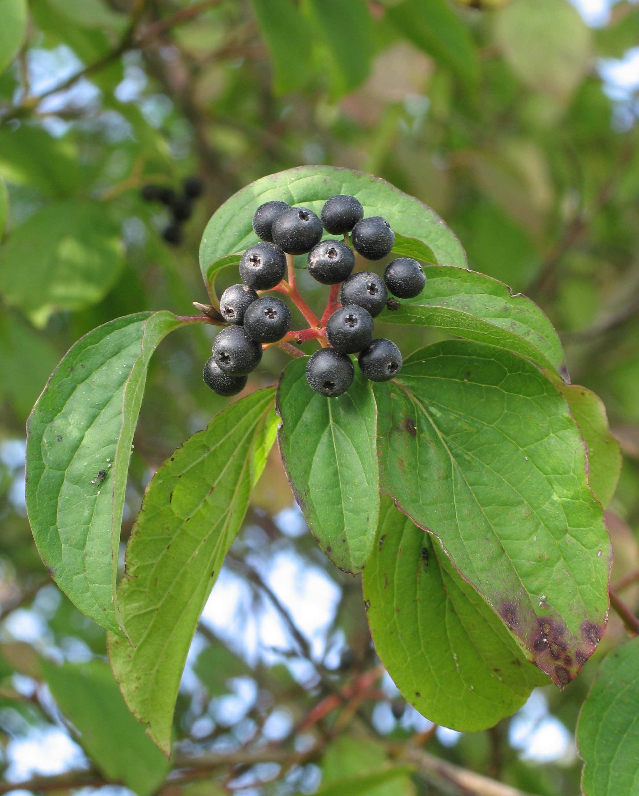 Common dogwood (Cornus sanguinea) with fruits, Oberer Leimberg near Gruibingen, Germany